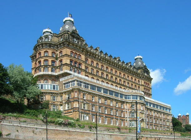 The Grand Hotel, near to Scarborough, North Yorkshire, Great Britain.